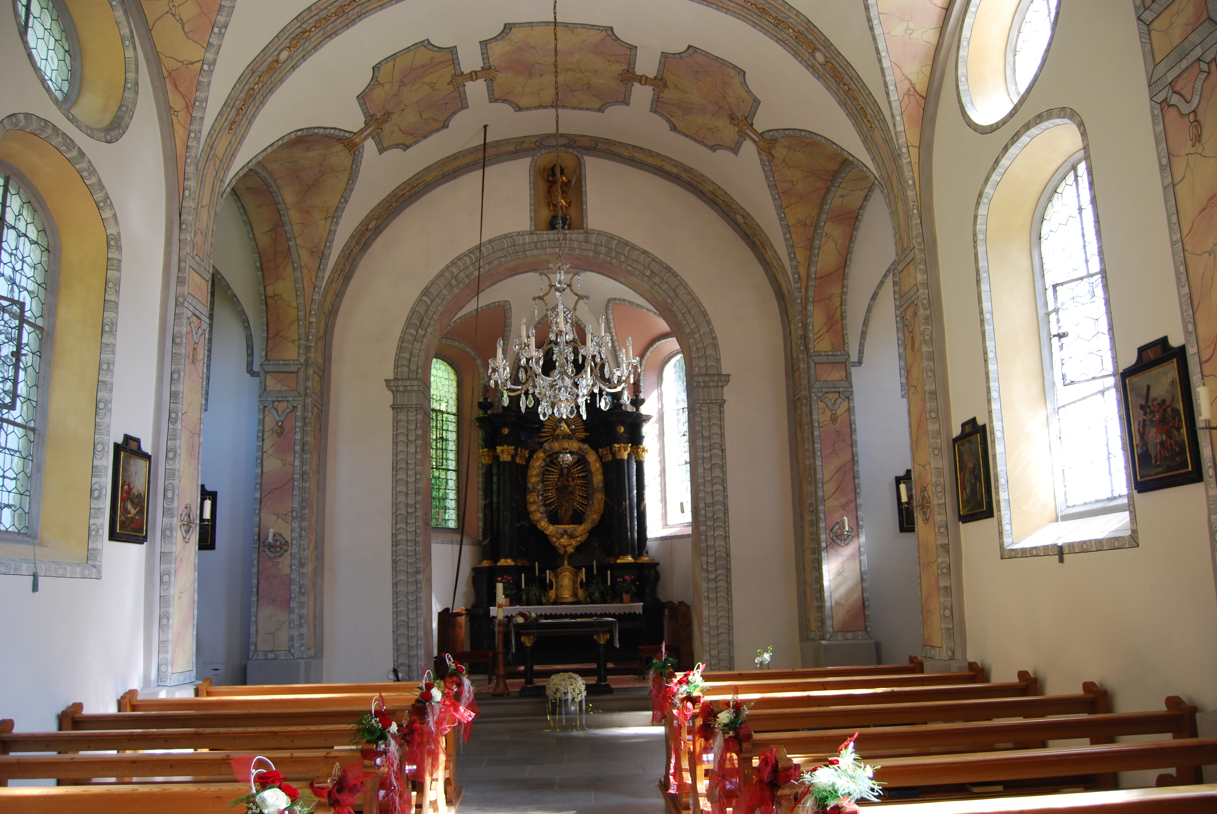 Altar of the Jonental pilgrimage chapel, canton of Aargau, SwitzerlandEsperanto: Altaro de la pilgrima kapelo Jonental, Kantono Argovio, Svislando